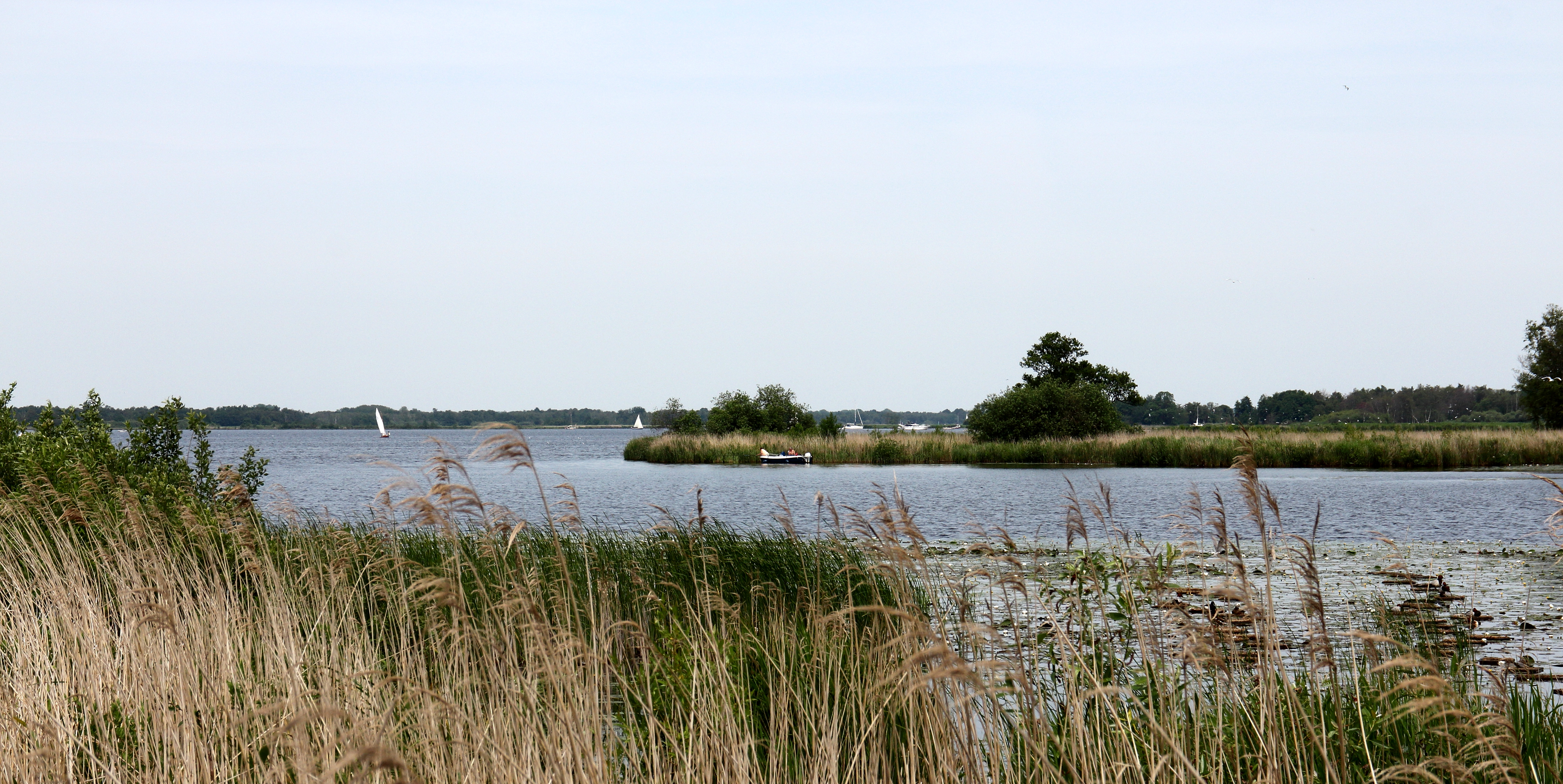 Nationaal Park Weerribben-Wieden, location De Wieden. This is a photo or sound file made in De Weerribben-Wieden National Park in the Netherlands, with the main subject of the file in the category: panorama photo